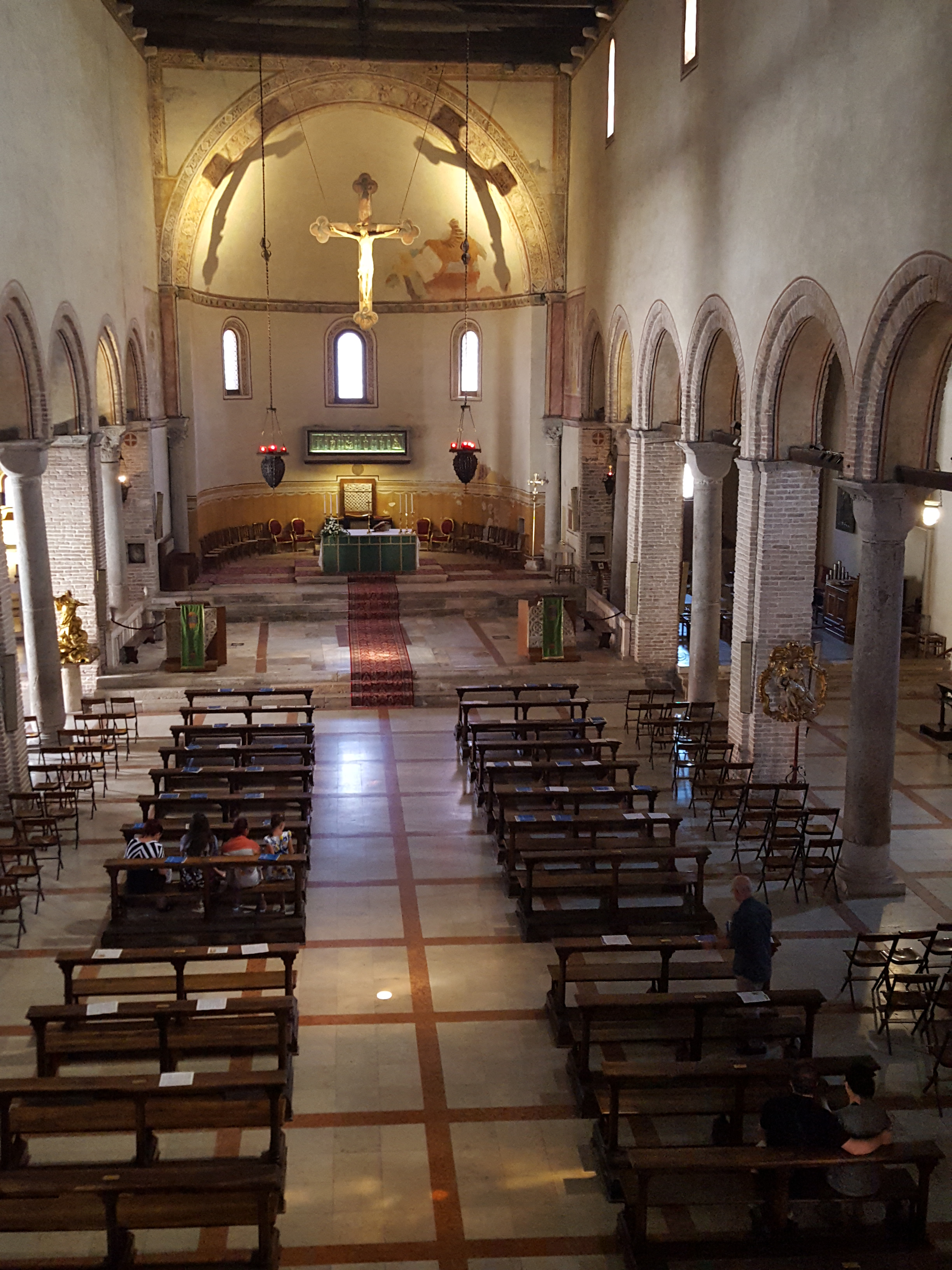 Internal of the cathedral in Caorle (Italy)